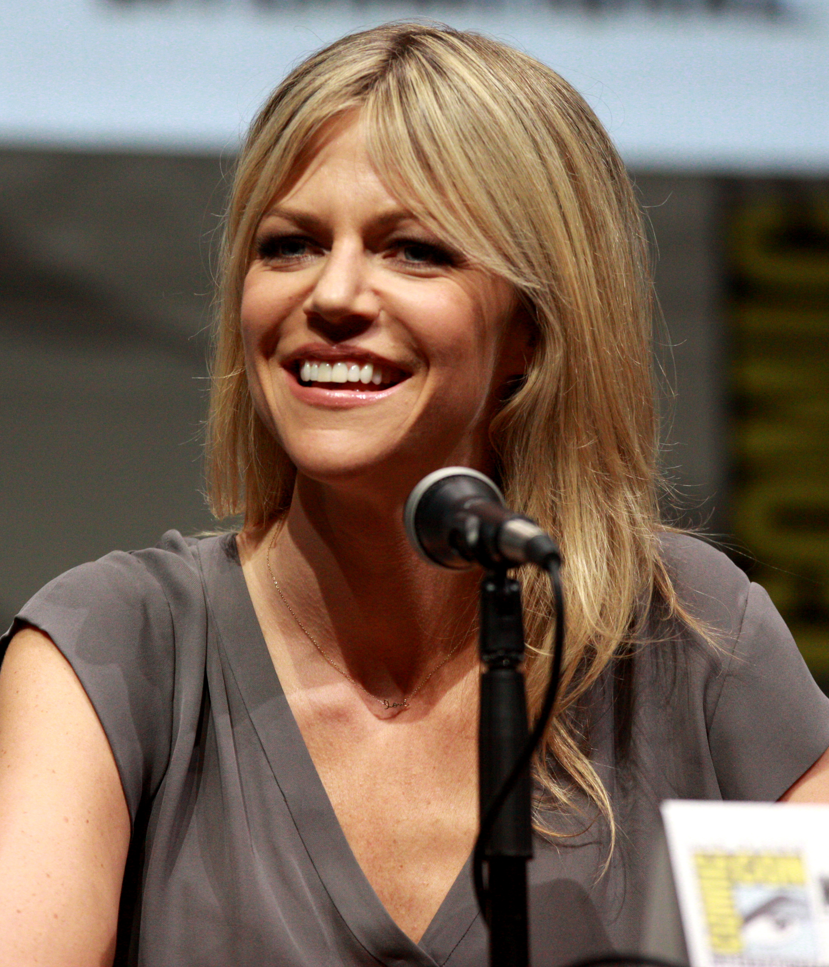 Kaitlin Olson at the 2013 San Diego Comic Con International in San Diego, California.